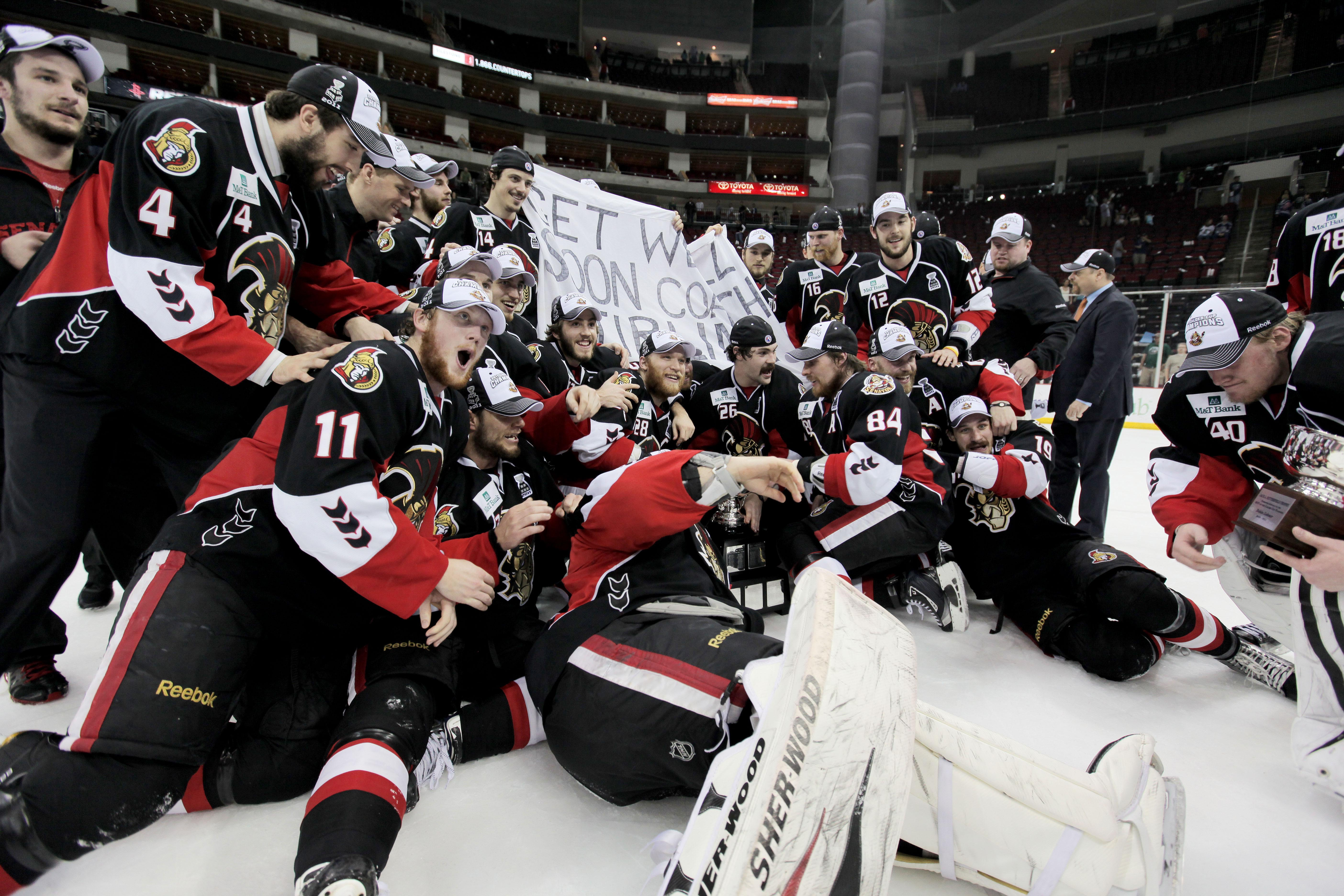 during the third period of game six of the AHL Calder Cup Finals, Tuesday, June 7, 2011, in Houston. Binghamton won 3-2 to win the championship. (Darren Abate/pressphotointl.com/AHL)